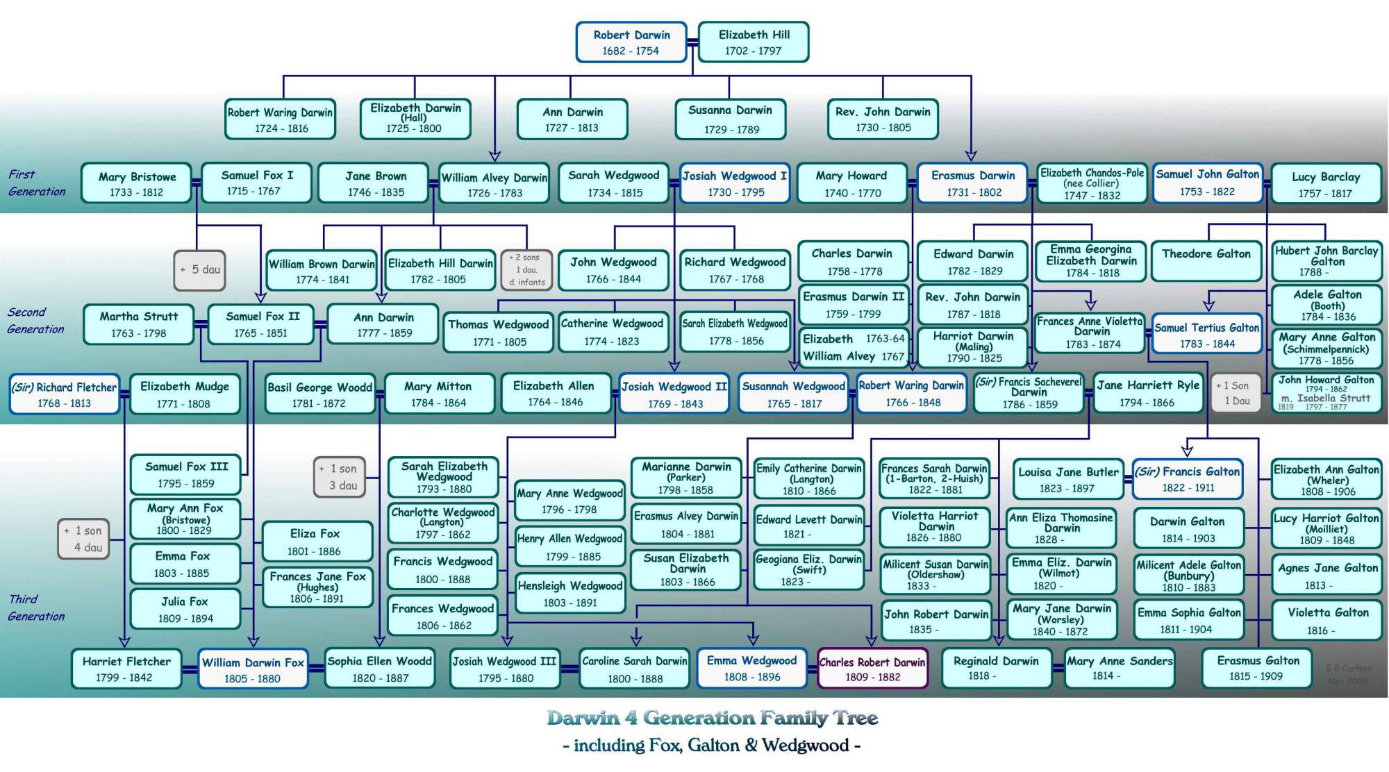 Author - G.B.Carlson aka Kiwi Kousin 08:26, 25 November 2005 (UTC) Personal creation